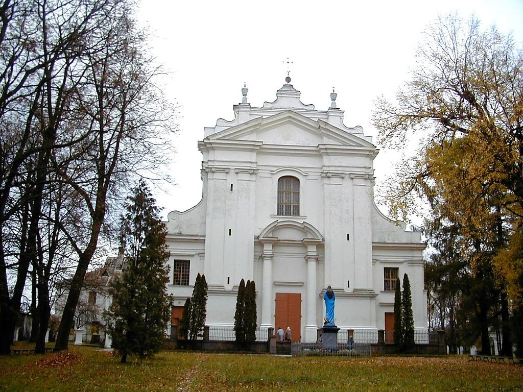 Krāslava St. Louis Roman Catholic Church